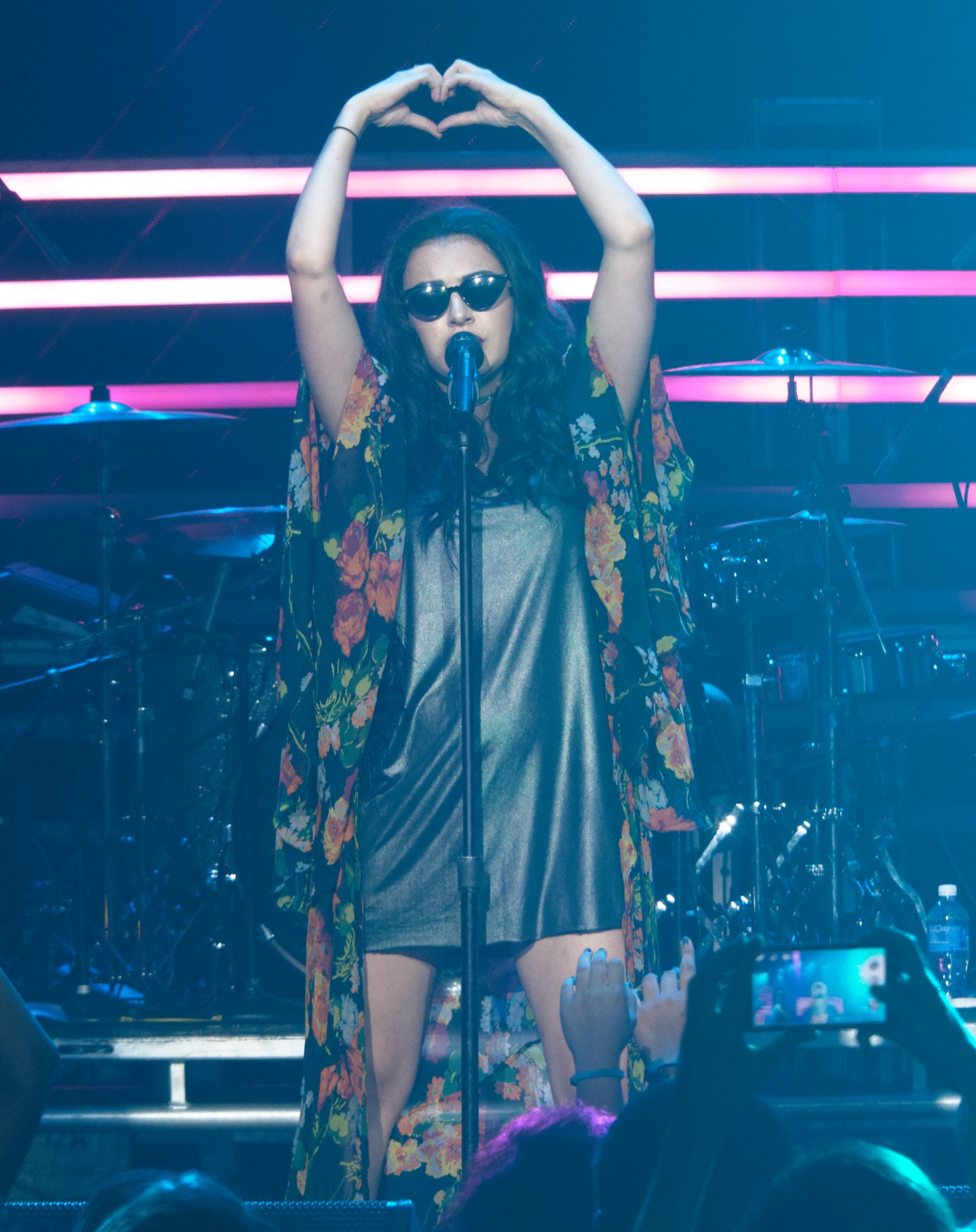 Charli XCX performing at the "Artist to Watch Concert"